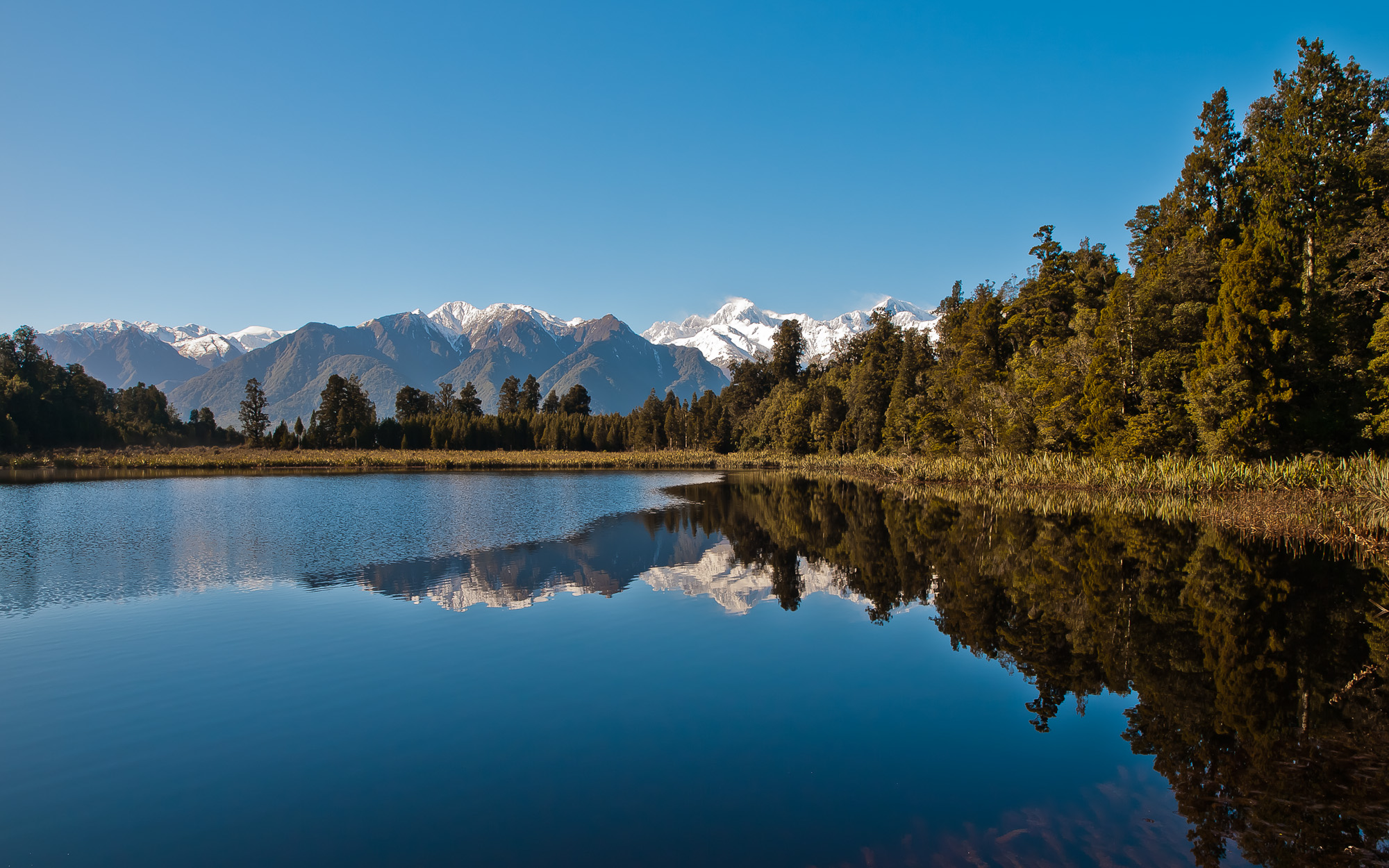 Lake Matheson (New Zealand) just after the sunrise